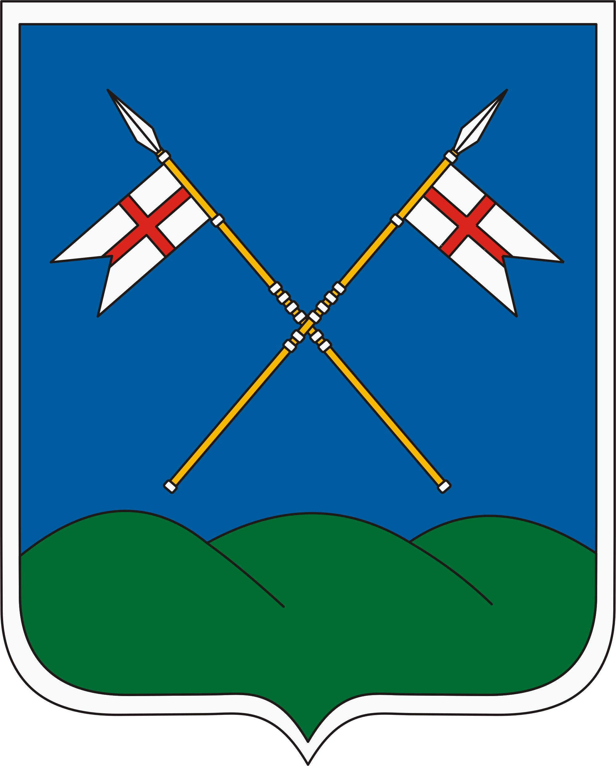 Coat of arms of Köblény, Hungary